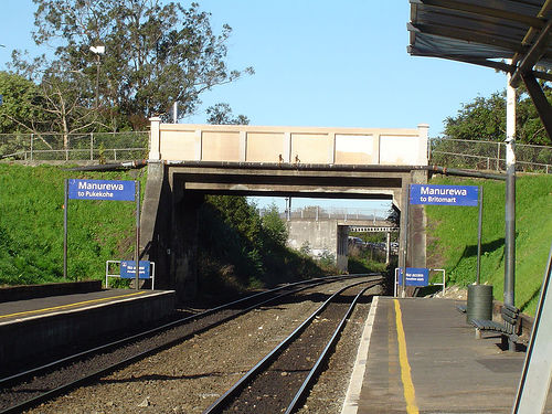 Manurewa Train Station. Photograped by James Pole.